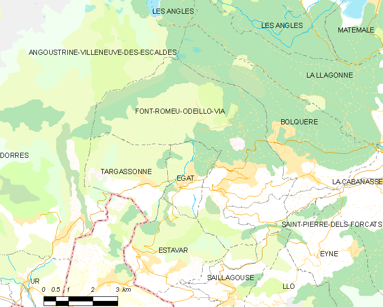 Map of French municipality